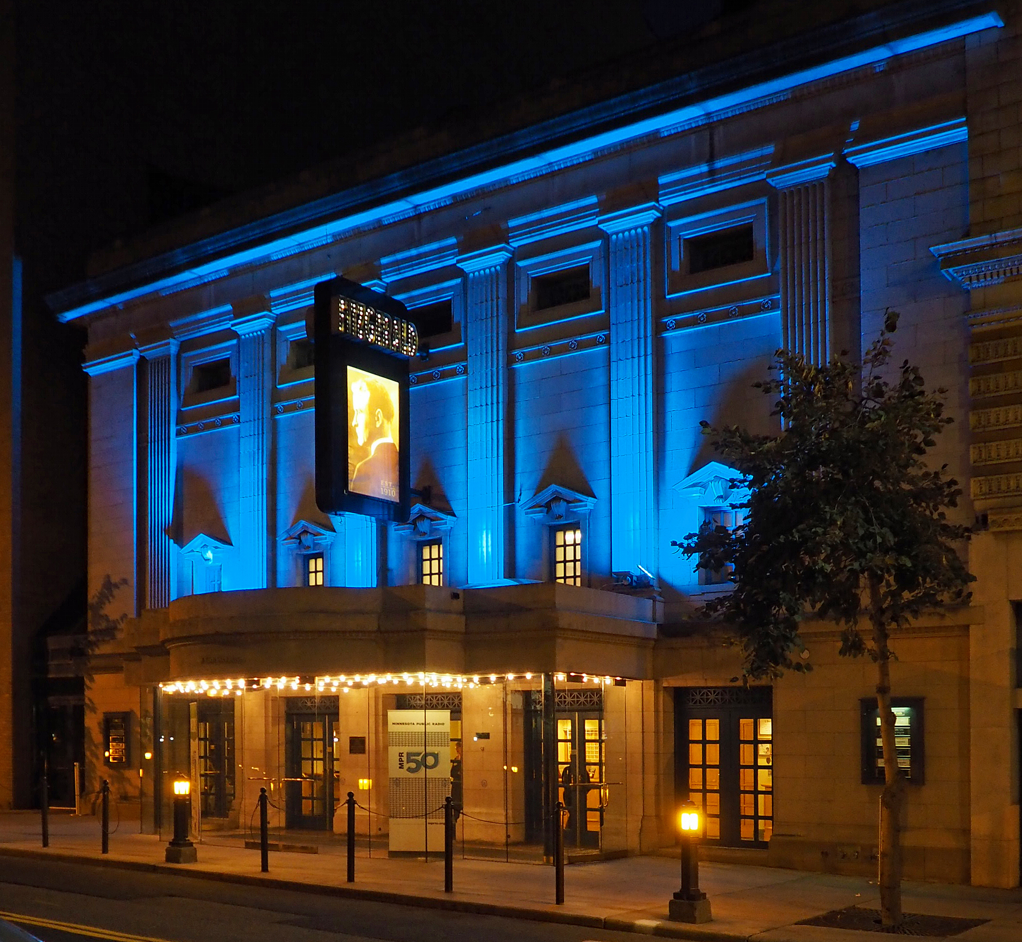 Fitzgerald Theater at night, 10 E Exchange St, Saint Paul, Minnesota, USA. Viewed from the west-northwest.